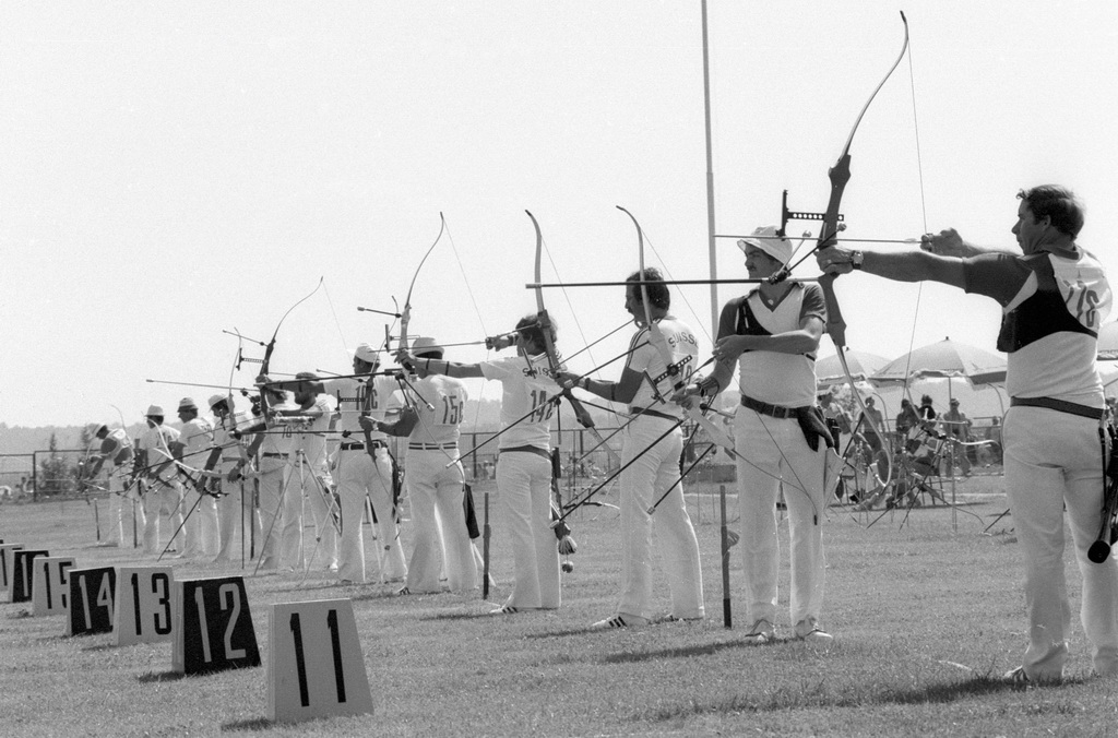 “The contest in archery during the XXII Olympic Games”. The contest in archery during the XXII Olympic Games in Moscow.